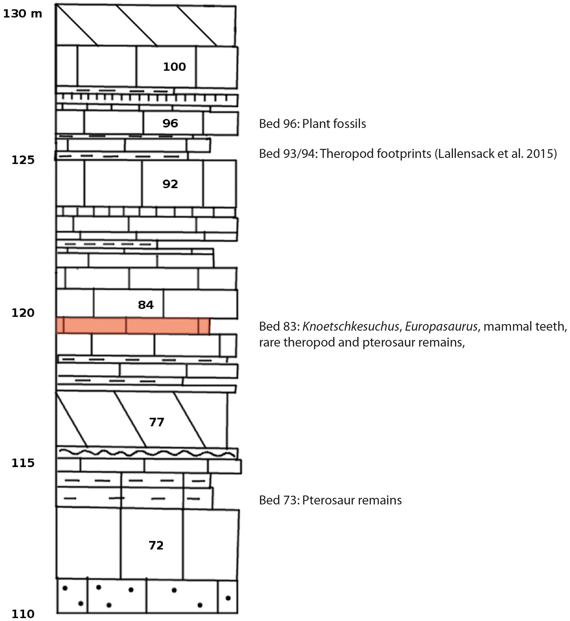 Fig 2. Geological section of the “Mittlerer Kimmeridge”. This figure is based on Fischer and modified from Lallensack et al. Beds yielding terrestrial fossils are listed.